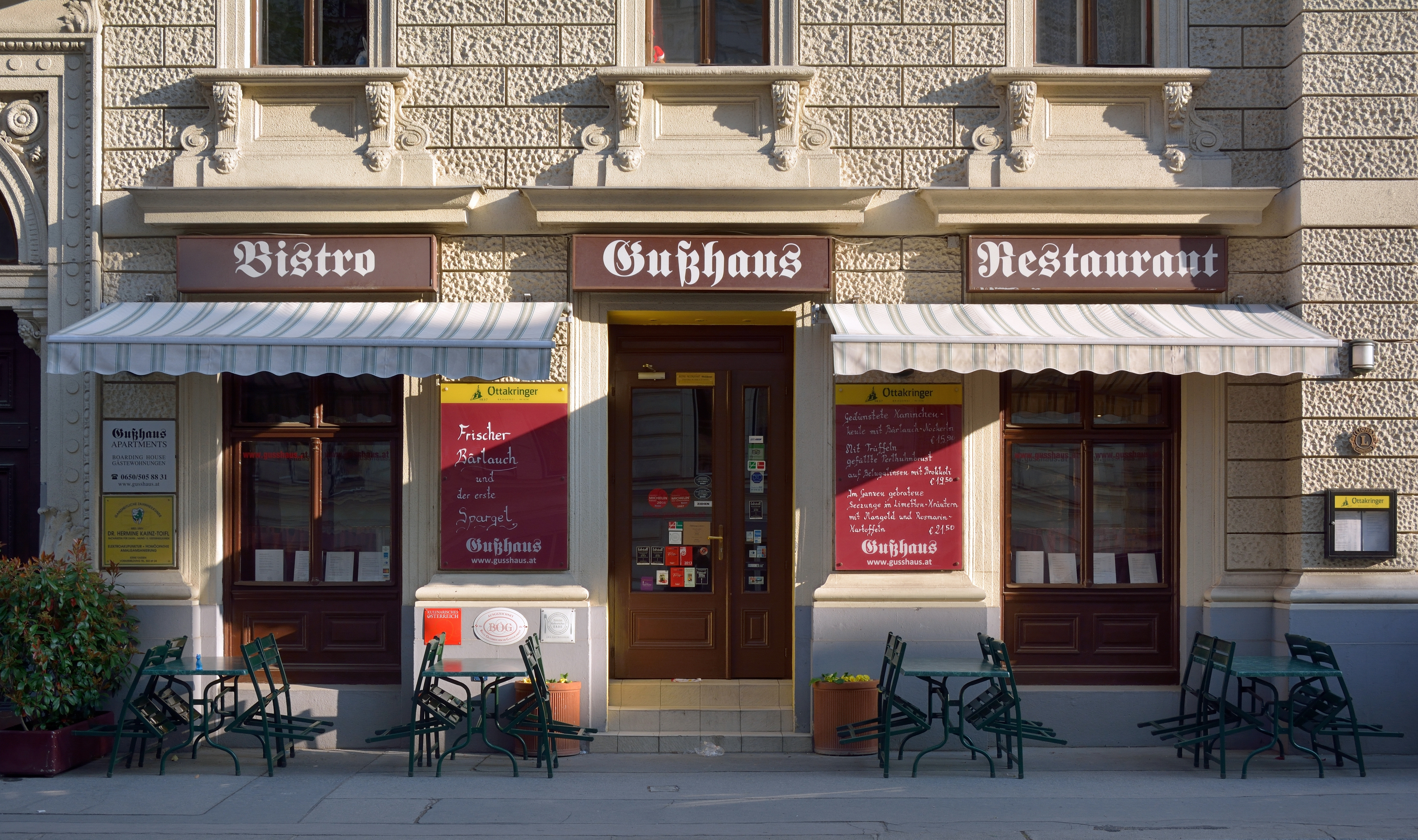 Restaurant Gußhaus, Gußhausstraße 23, 4th district of Vienna